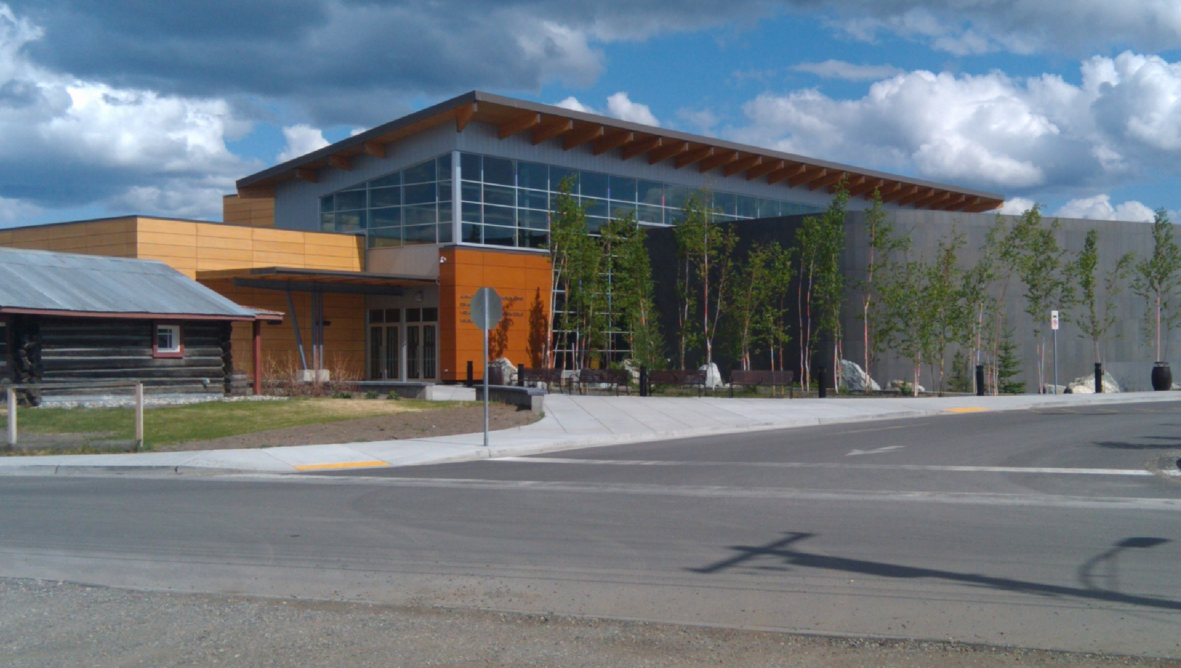 The Morris Thompson Cultural and Visitors Center at 101 Dunkel Street in downtown Fairbanks, Alaska. The center, which opened in 2008, placed numerous government, non-profit and visitor services agencies under one roof. The log cabin, built in 1910, remained on its original site as an exhibit of sorts. The remainder of the block was cleared of its original structures to build the center.